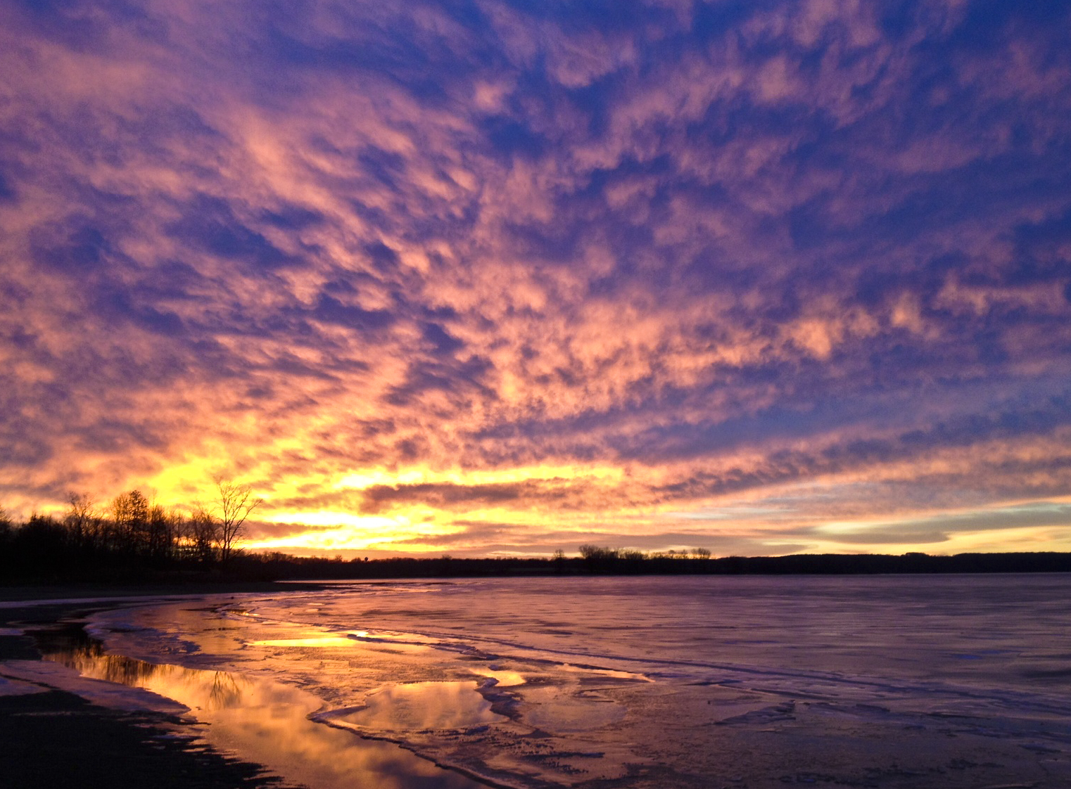 An amazing array of fiery colors awaited visitors in the early hours at Shenango River Lake in Hermitage, Pennsylvania Jan. 13. Shenango Lake is one of 16 flood control projects in the Pittsburgh District. It provides flood protection for the Shenango River Valley as well as for the Beaver and upper Ohio Rivers. Since its completion in 1965, Shenango has prevented more than $175 million in flood damage. There are more than 15,000 acres of project land for wildlife purposes, including a waterfowl propagation area. For more information about Shenango River Lake visit (U.S. Army Corps of Engineers photo by John Kolodziejski)